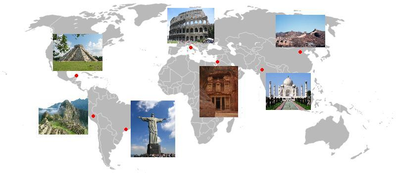 Map of "New Seven Wonders of the World". "Commons" and "Wikipedia" image combination.